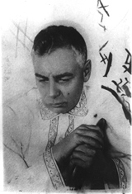 Aleksandr Voronski (1884-1937)